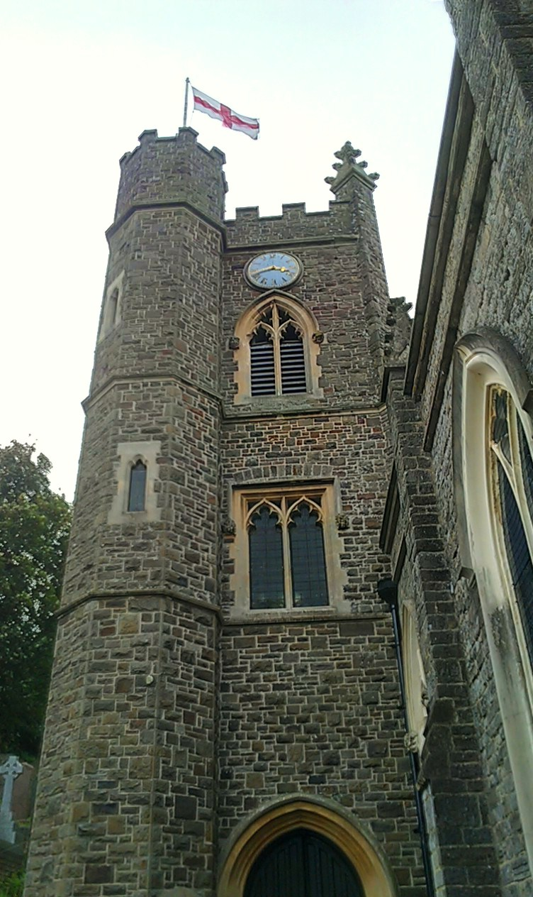 Tower at St Mary's Church, Appledore, a Church of England parish church located in Appledore, Torridge.